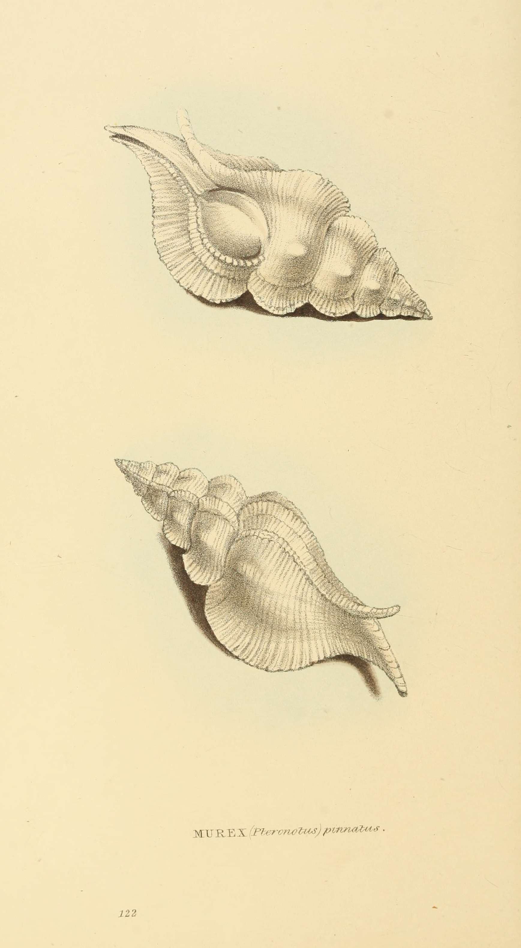 Plate from Zoological illustrations, Volume 3, 2nd series. Murex (Pteronotus) pinnatus Sw. Accepted as Pterynotus alatus[1]